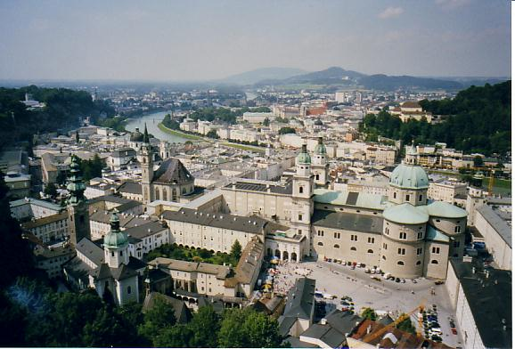 Salzburg, Austria